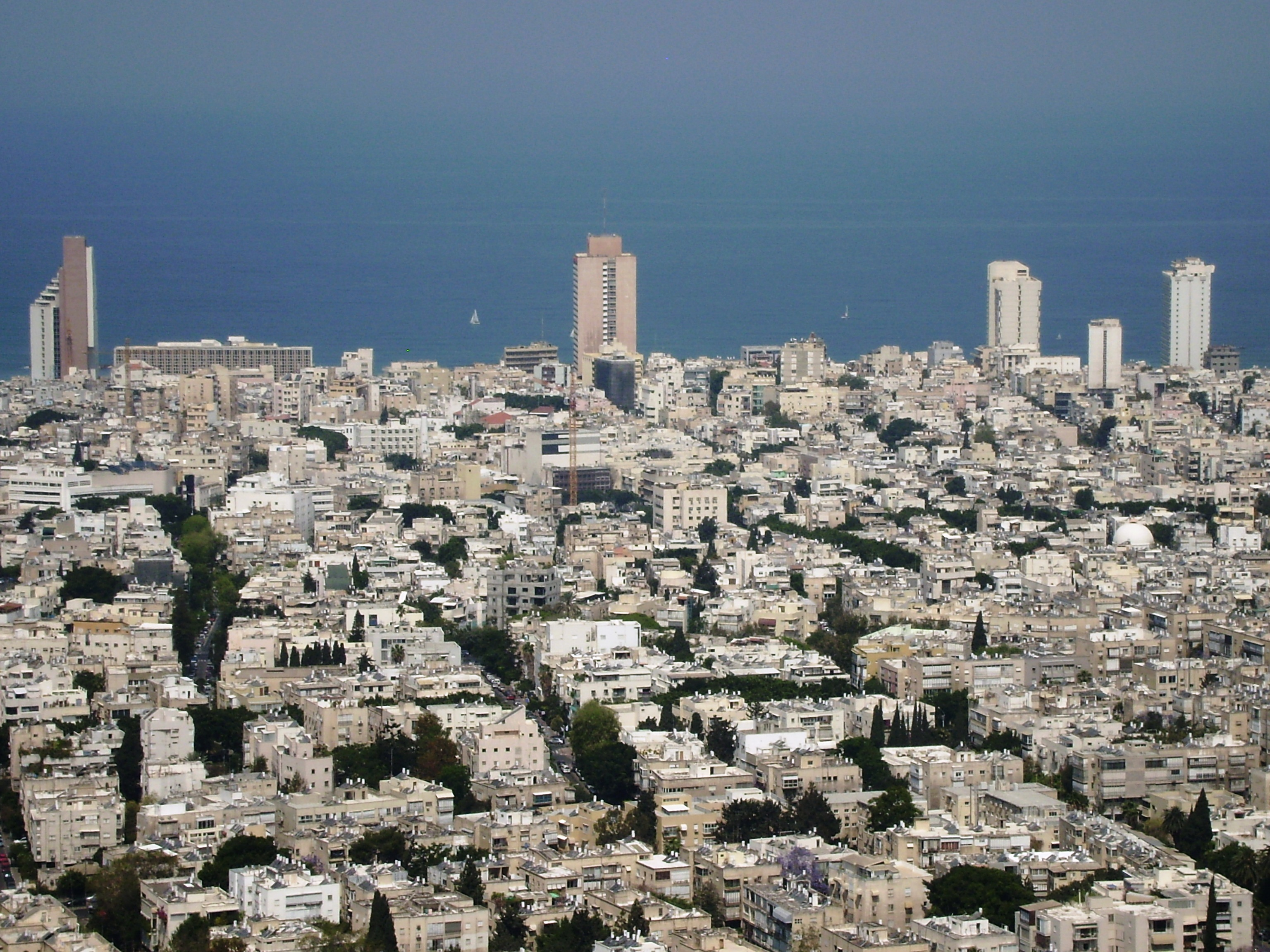 The city of Tel-Aviv on it's 100th birthday, as seen from the rooftop of the highest tower in Tel-Aviv.